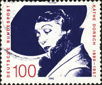 German stamp, showing German actress Käthe Dorsch.